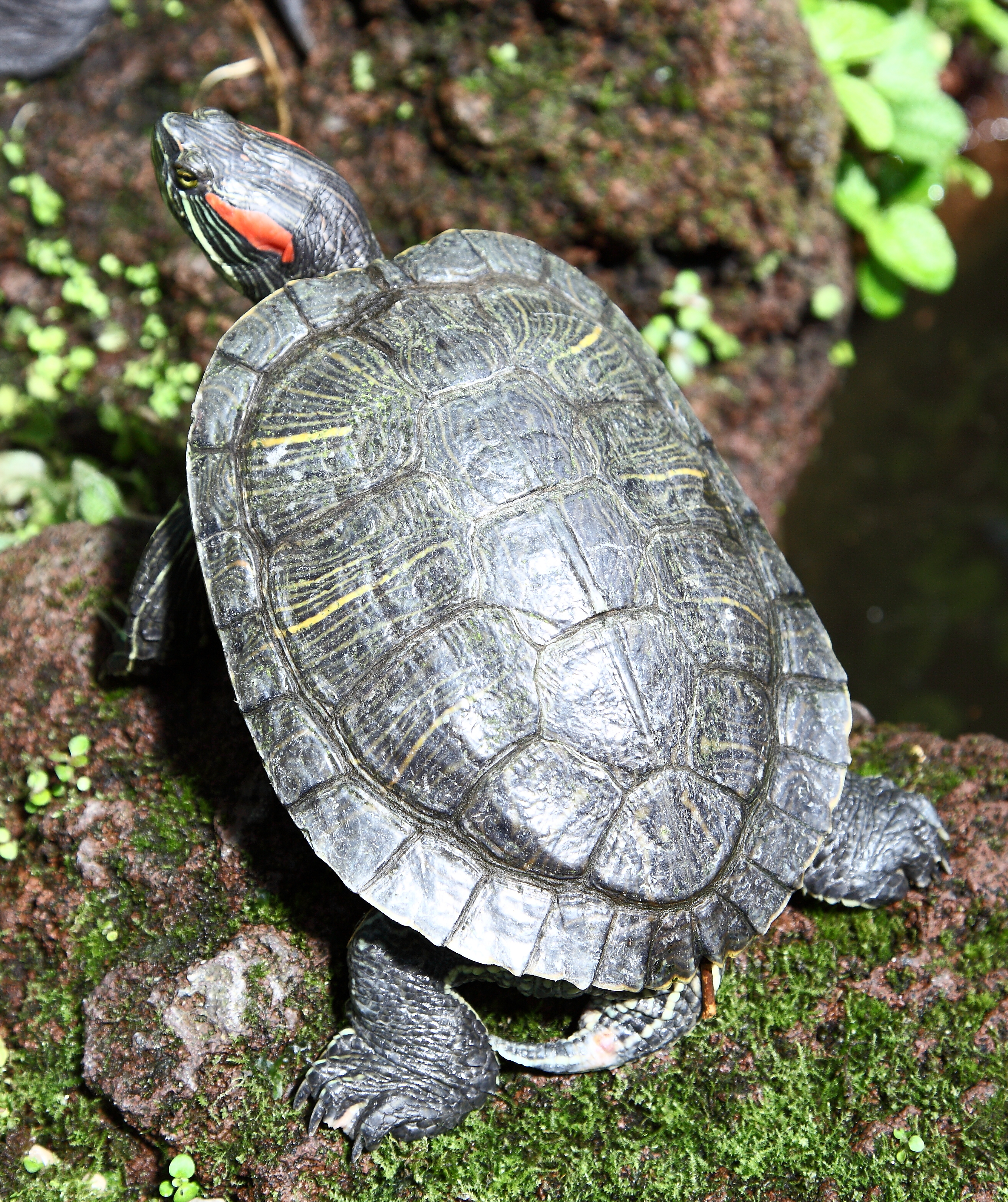 Red-eared slider (Trachemys scripta elegans), Botanic Garden, Munich, Germany